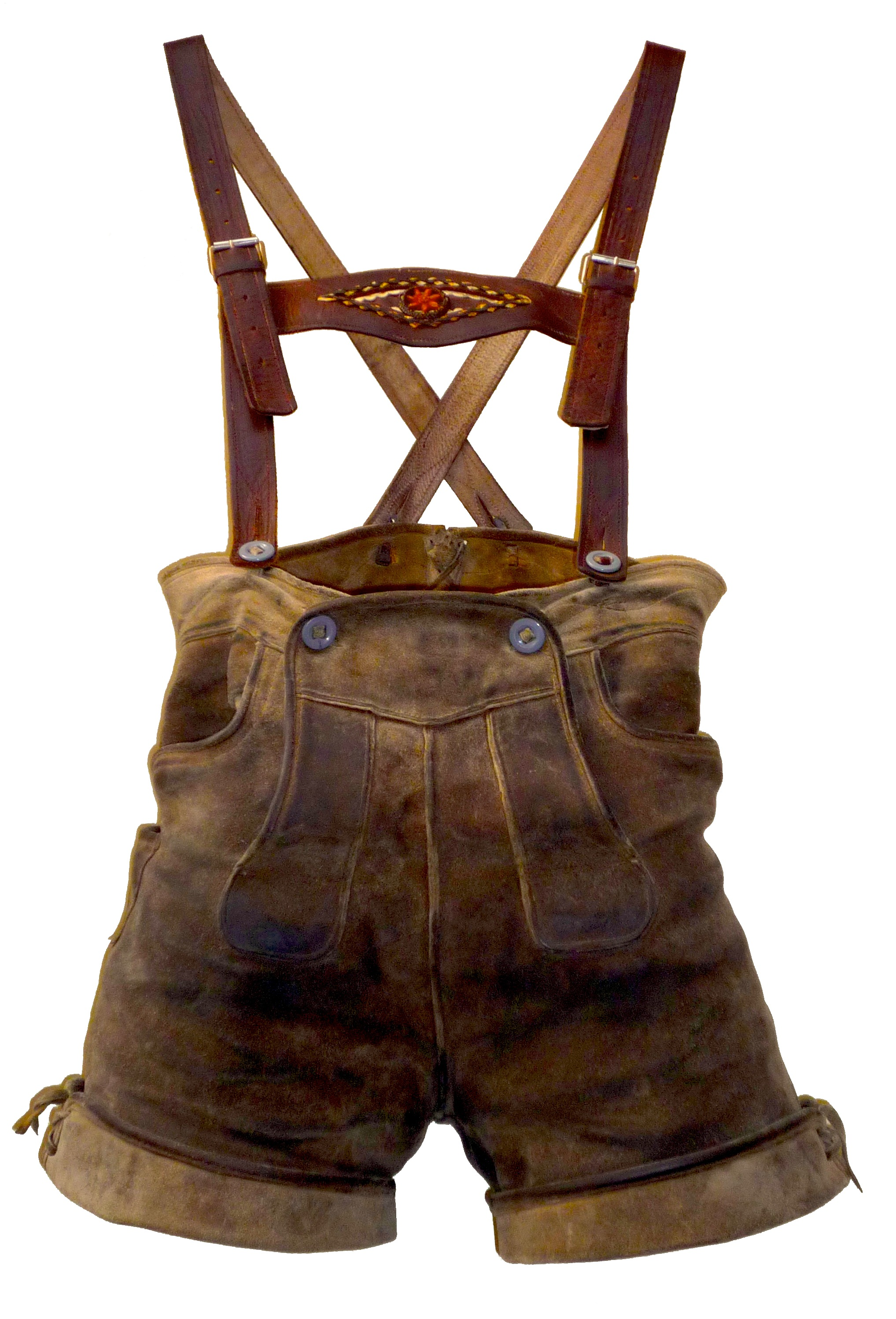 Knopflatz Lederhose, a traditionnal german leather breeche, ca. 1940